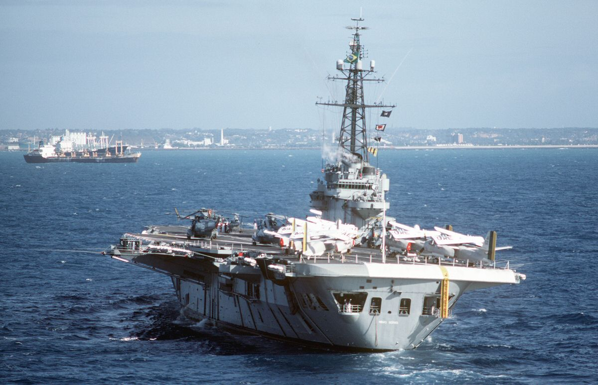 A port quarter view of the Brazilian aircraft carrier MINAS GERAIS (A 11), in the harbor for UNITAS XXV, the silver anniversary hemispheric naval exercise involving Brazil, Chile, Colombia, Ecuador, Peru, the United States, Uruguay and Venezuela. ID: DNST9001330